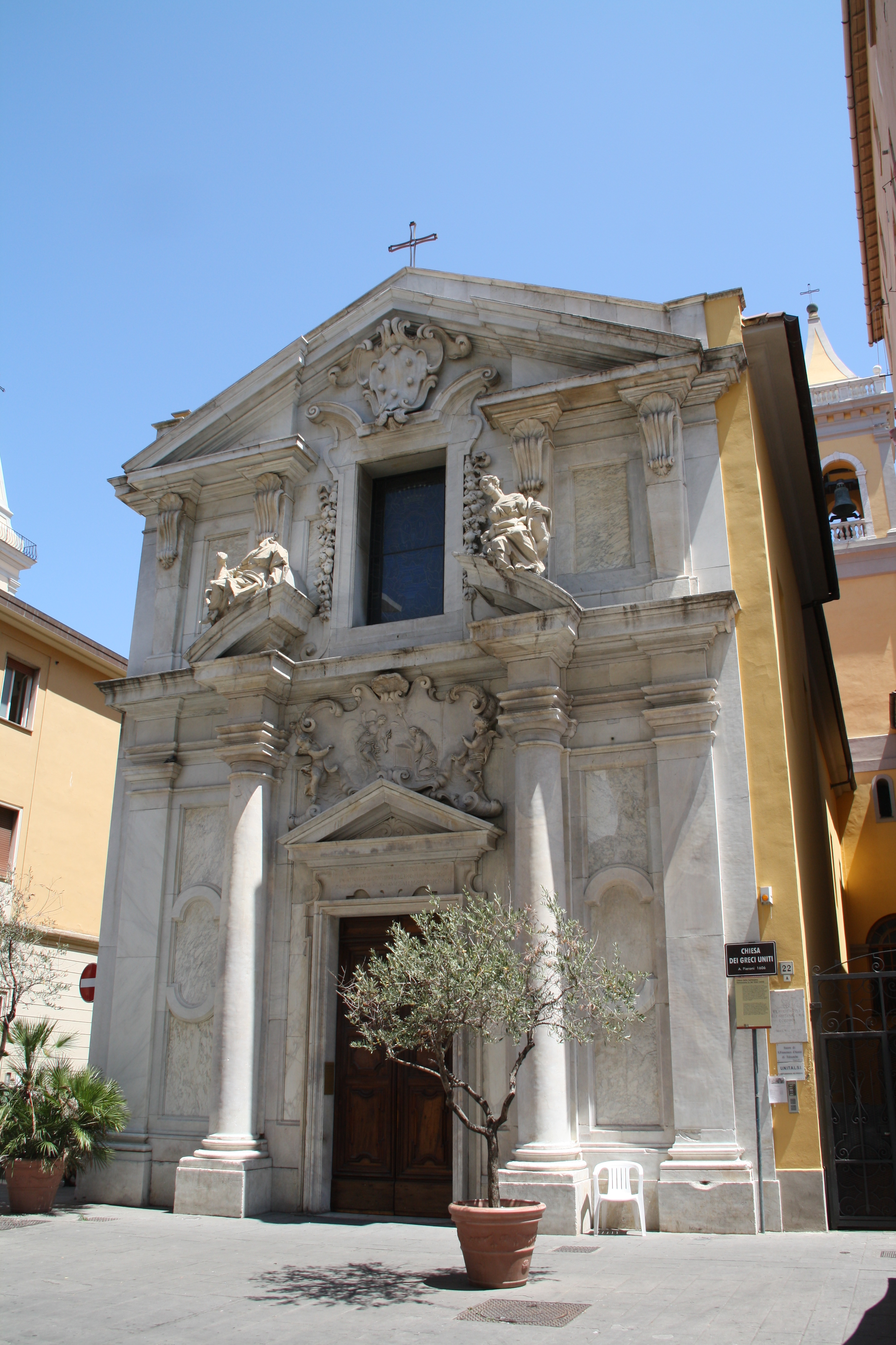 Italy, Livorno, Via della Madonna. The Church of the Most Holy Annunciation.